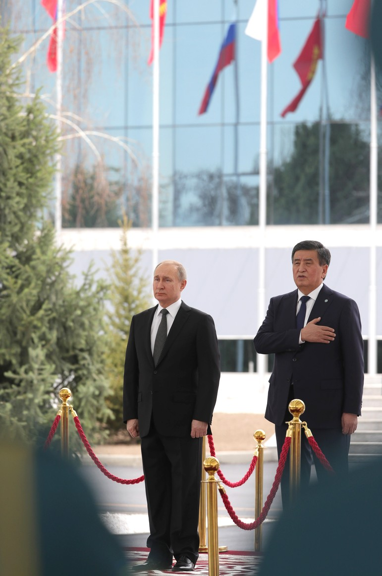 Vladimir Putin made a state visit to Kyrgyzstan at the invitation of President Sooronbay Jeenbekov.